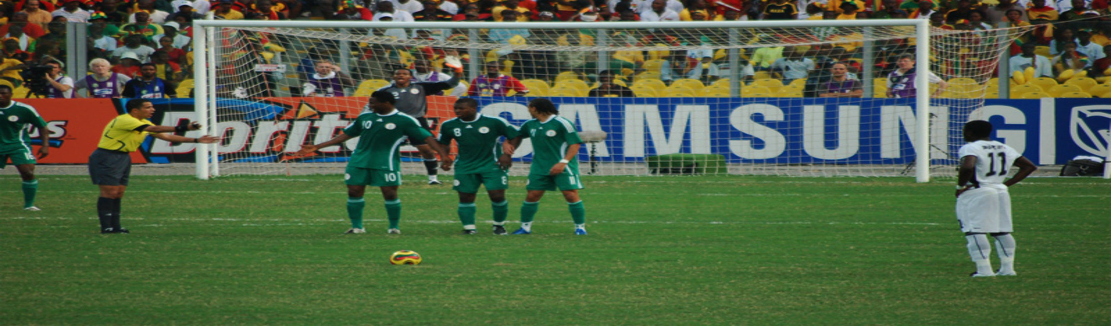 Ghana national football team (also known as the Black Stars) versus Nigeria national football team (also known as the Super Eagles) Panorama.